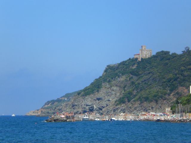 Sightseen of the beach of Quercianella and Castello Sonnino